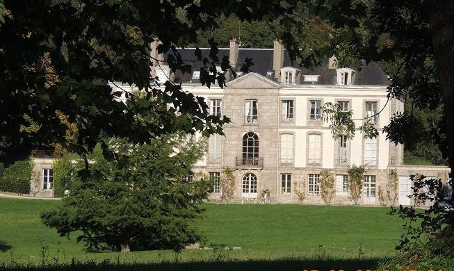 Domaine de Segrez, the château at the back of the parc, surrounded by tree branches.